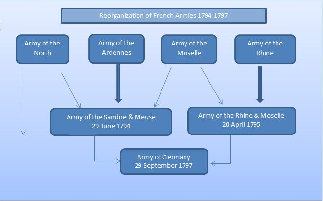 Organization of French Armies 1794-1797